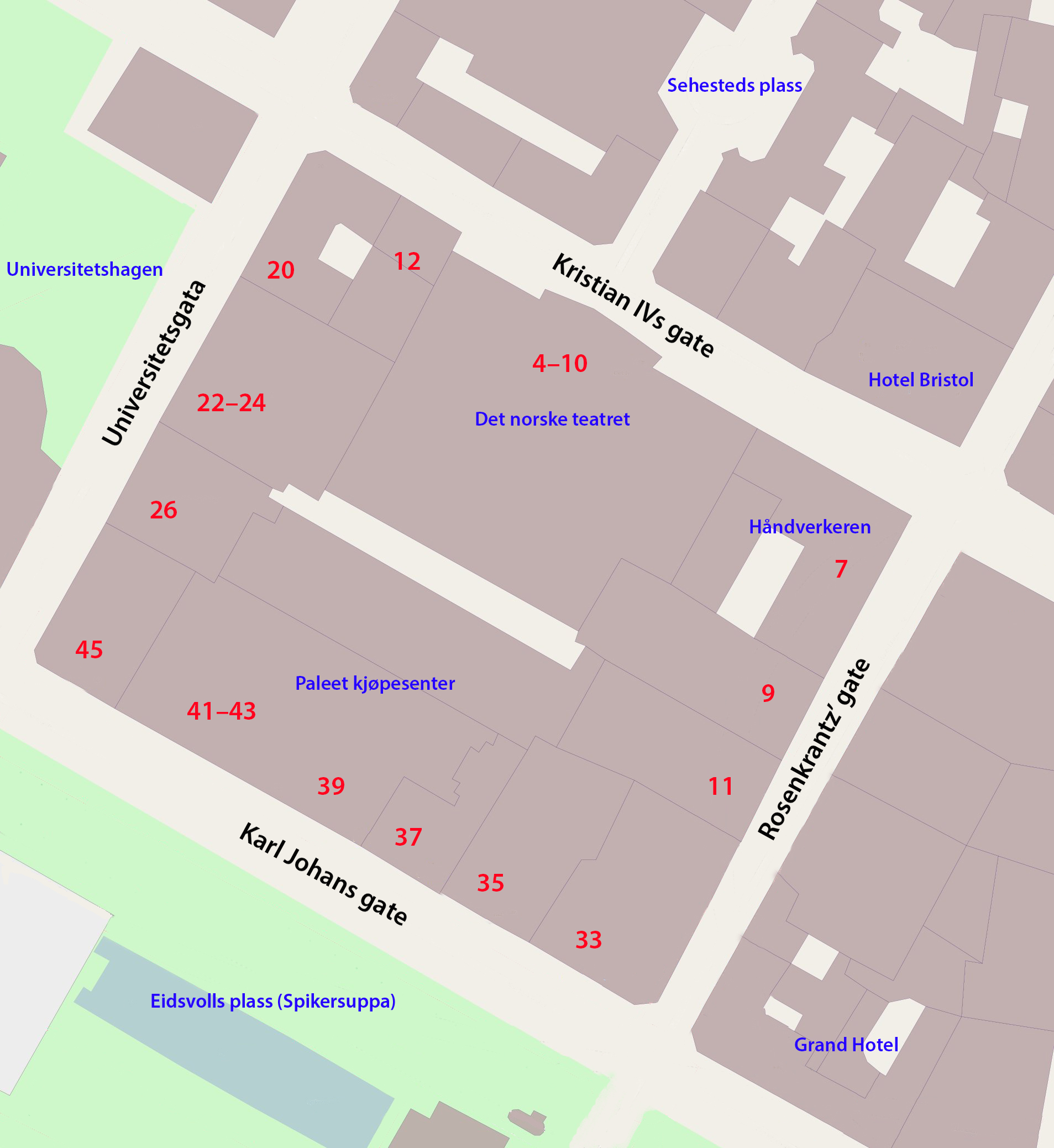 Map over the Karl Johan-block in downtown Oslo (based on OpenStreetMap)